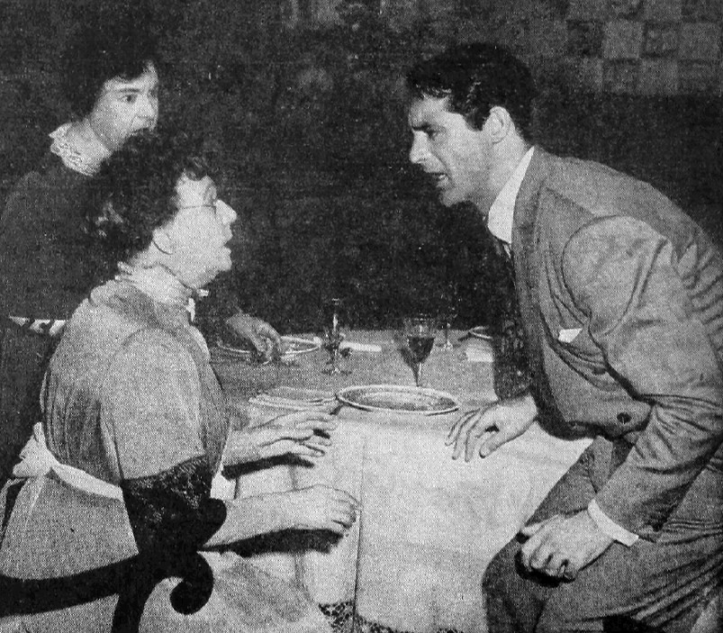 Photo of Jean Adair, Josephine Hull and Cary Grant from the film Arsenic and Old Lace.